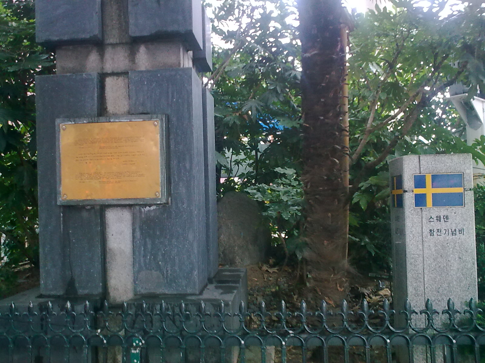 Korean war monument about Swedish medical support in Busan. The description is written in Swedish, Korean, English.